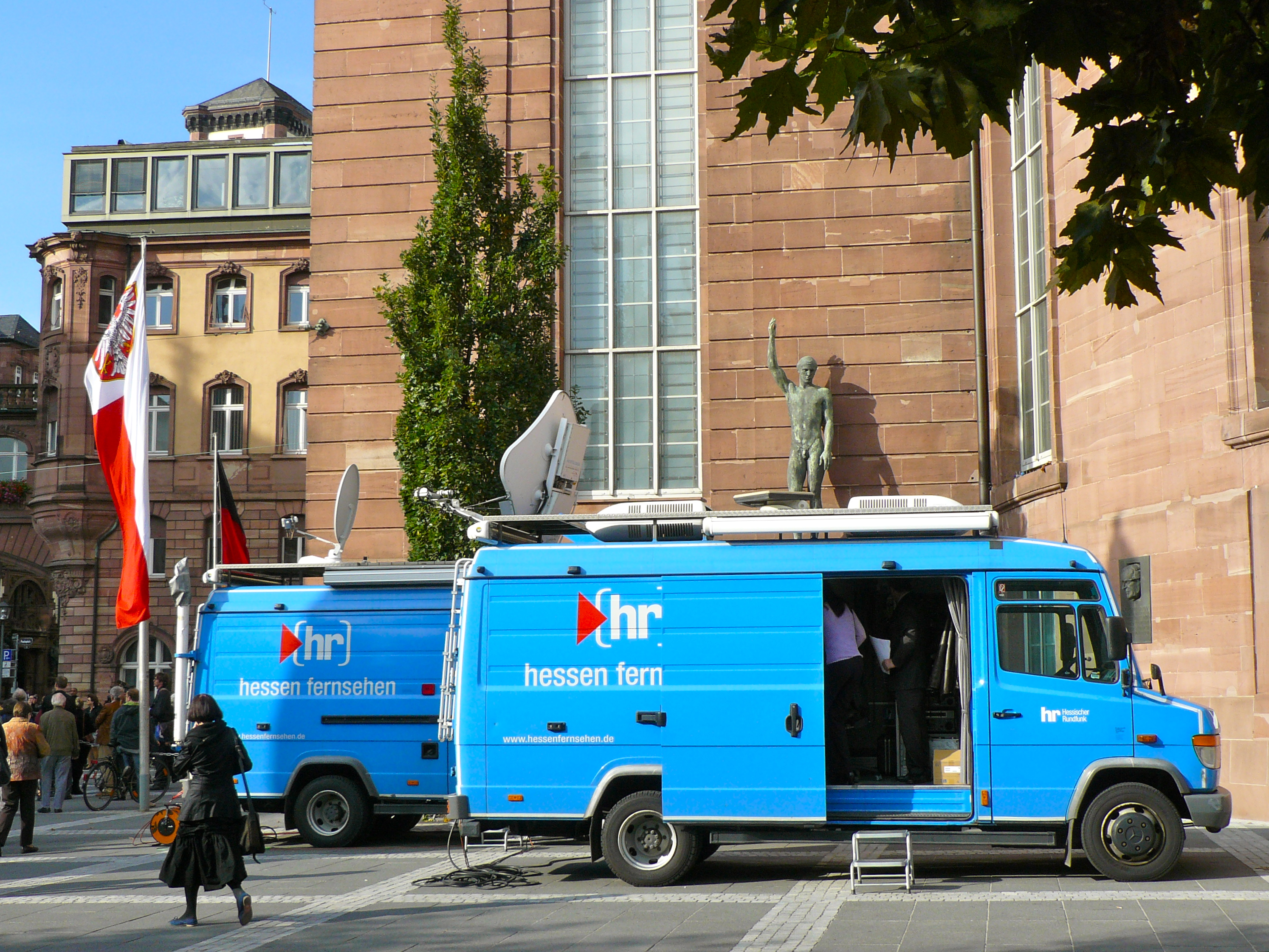 Broadcast vans of Hessian Broadcast Frankfurt, Hesse, Germany at St. Paul's church during commemorative event 20 Years German Unity 1990–2010